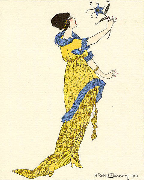 Fashion plate illustrating a dress by Jacques Doucet Title: "La Fleur merveilleuse"